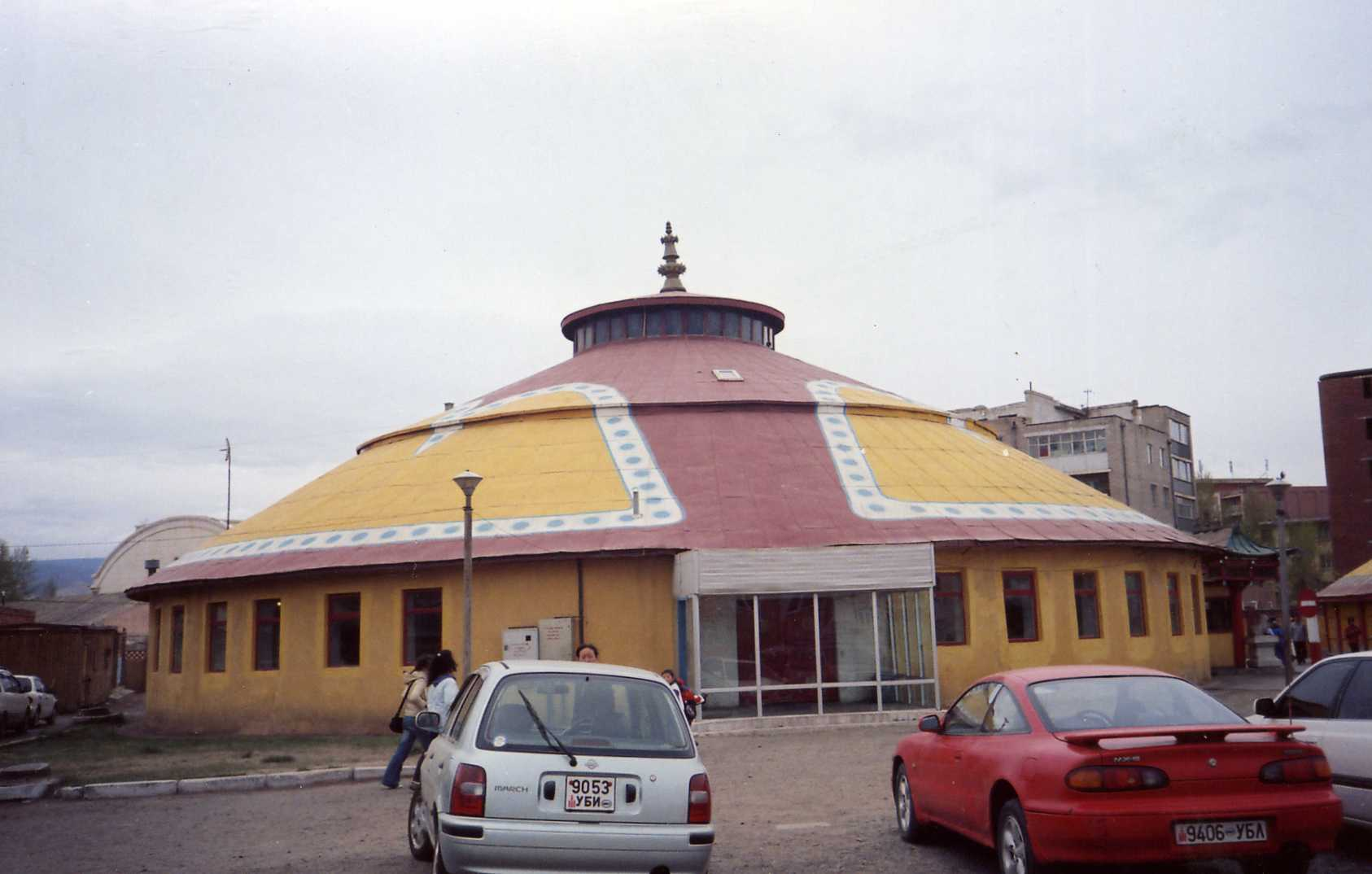 Dashichoiling monastery May 2007